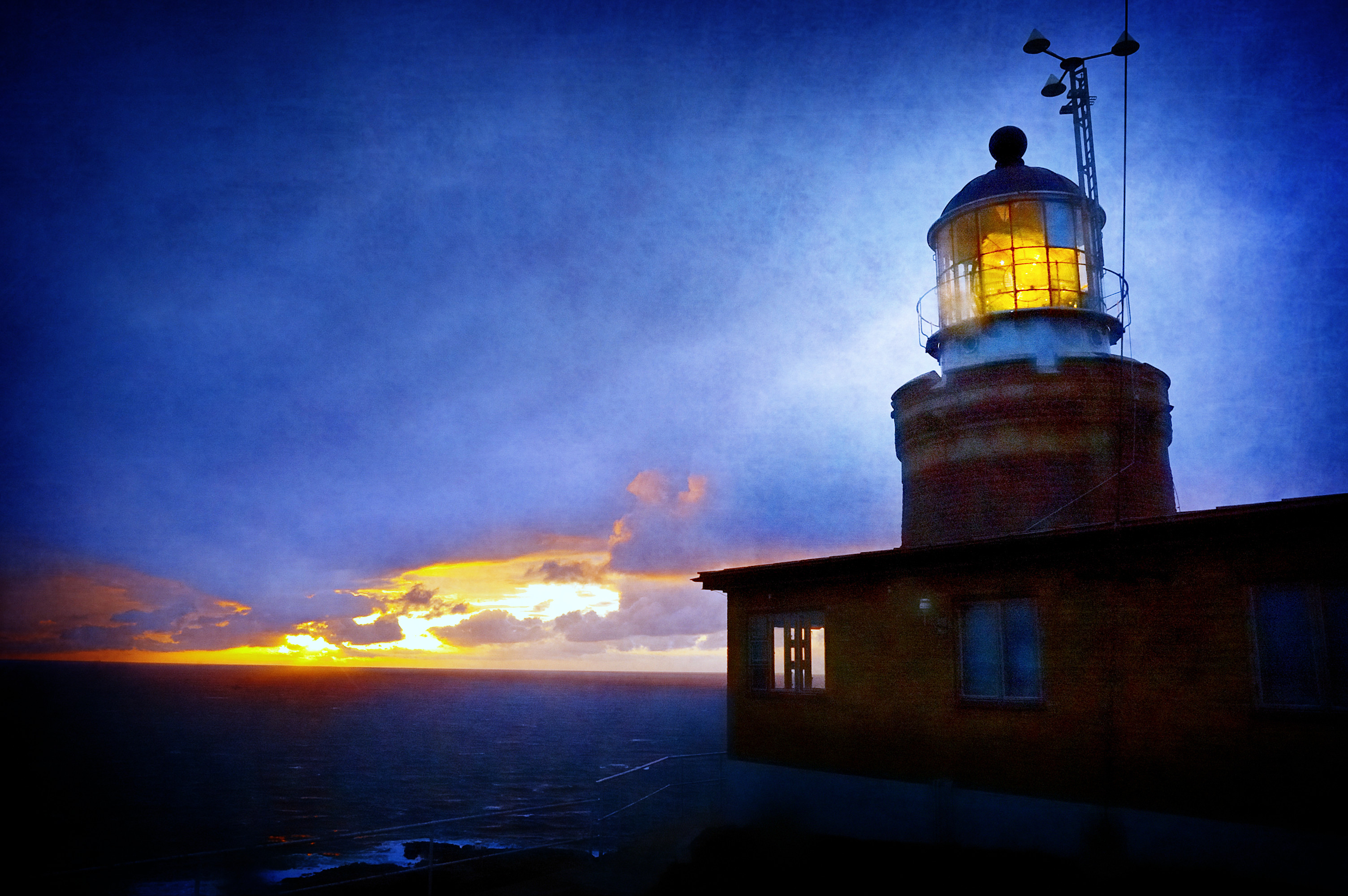 Kullens fyr at sunset.